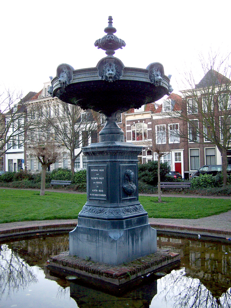 A fountain dating from 1884 to honour the female writers Aagje Deken and Betje Wolff whom both where born in Vlissingen. It was originally placed at te Betje Wolffplein but was moved to its current place, the Bellamypark.